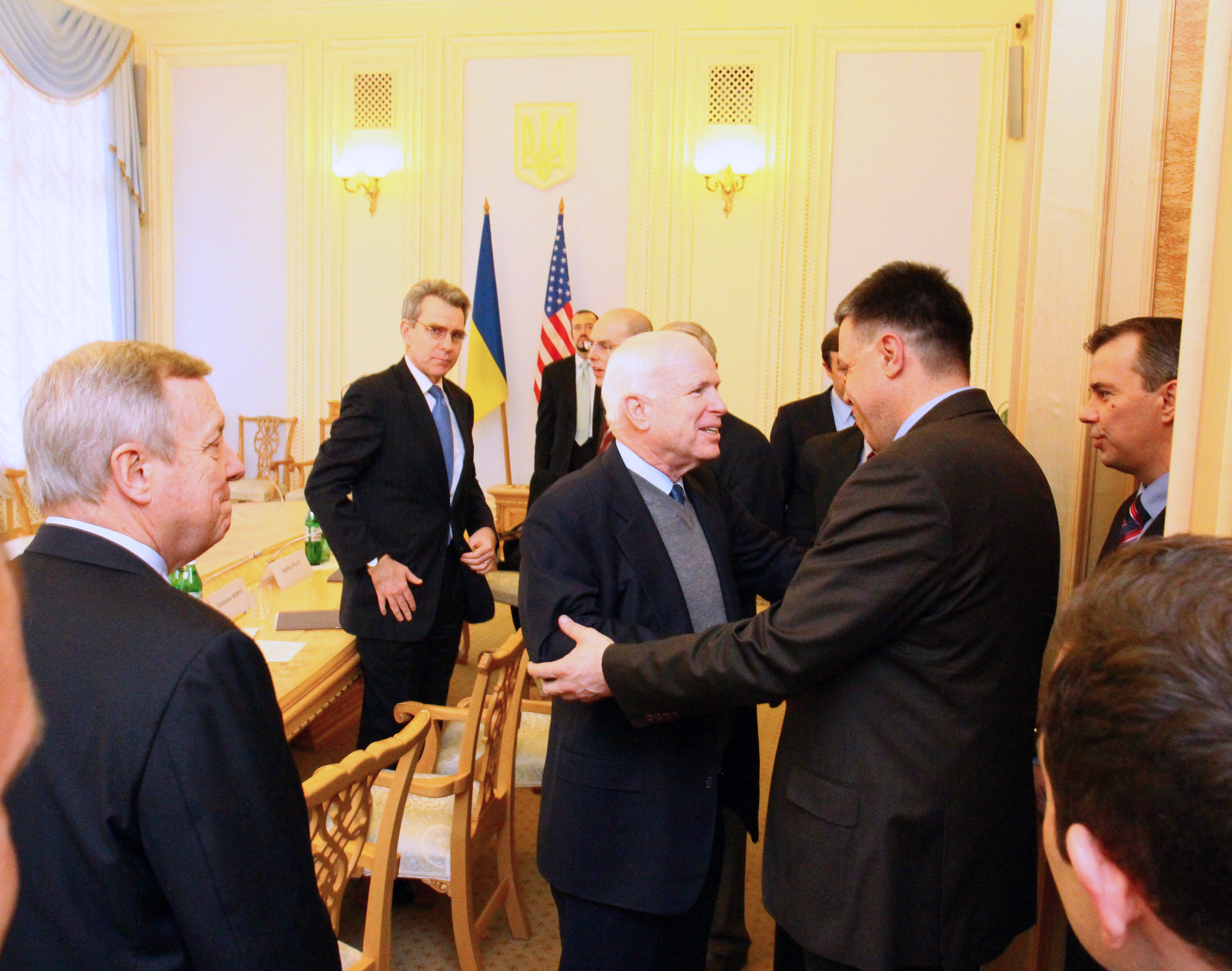 This work is in the public domain in the United States because it is a work prepared by an officer or employee of the United States Government as part of that person’s official duties under the terms of Title 17, Chapter 1, Section 105 of the US Code. See Copyright. Note: This only applies to original works of the Federal Government and not to the work of any individual U.S. state, territory, commonwealth, county, municipality, or any other subdivision. This template also does not apply to postage stamp designs published by the United States Postal Service since 1978. (See § 313.6(C)(1) of Compendium of U.S. Copyright Office Practices). It also does not apply to certain US coins; see The US Mint Terms of Use. This file has been identified as being free of known restrictions under copyright law, including all related and neighboring rights.